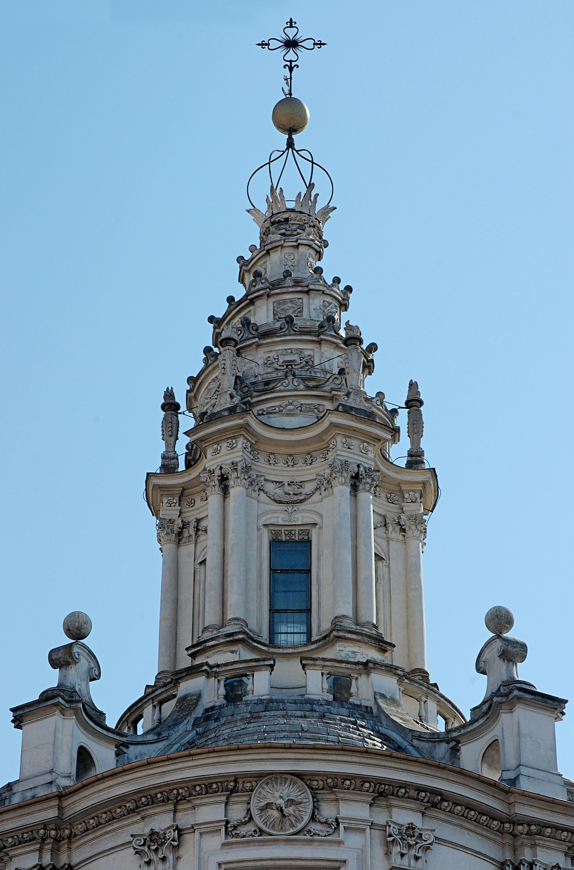 Spire of Chapel Sant’Ivo, designed by Borromini (1660), viewed from the court of the Palazzo della Sapienza in Rome.